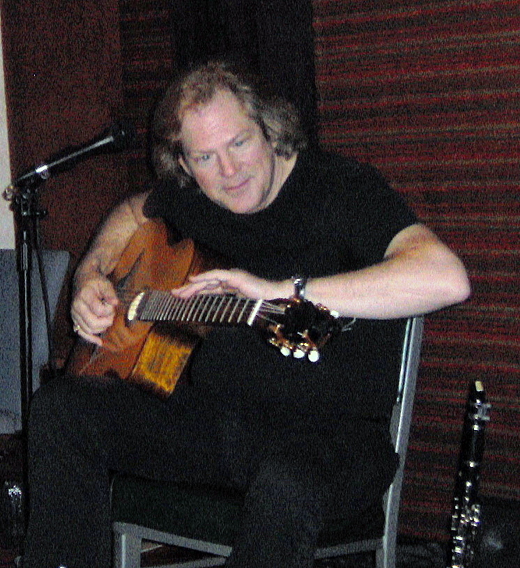 John Jorgenson performing with the John Jorgenson Quintet at Kentucky Coffee Tree Cafe in Frankfort, Kentucky.